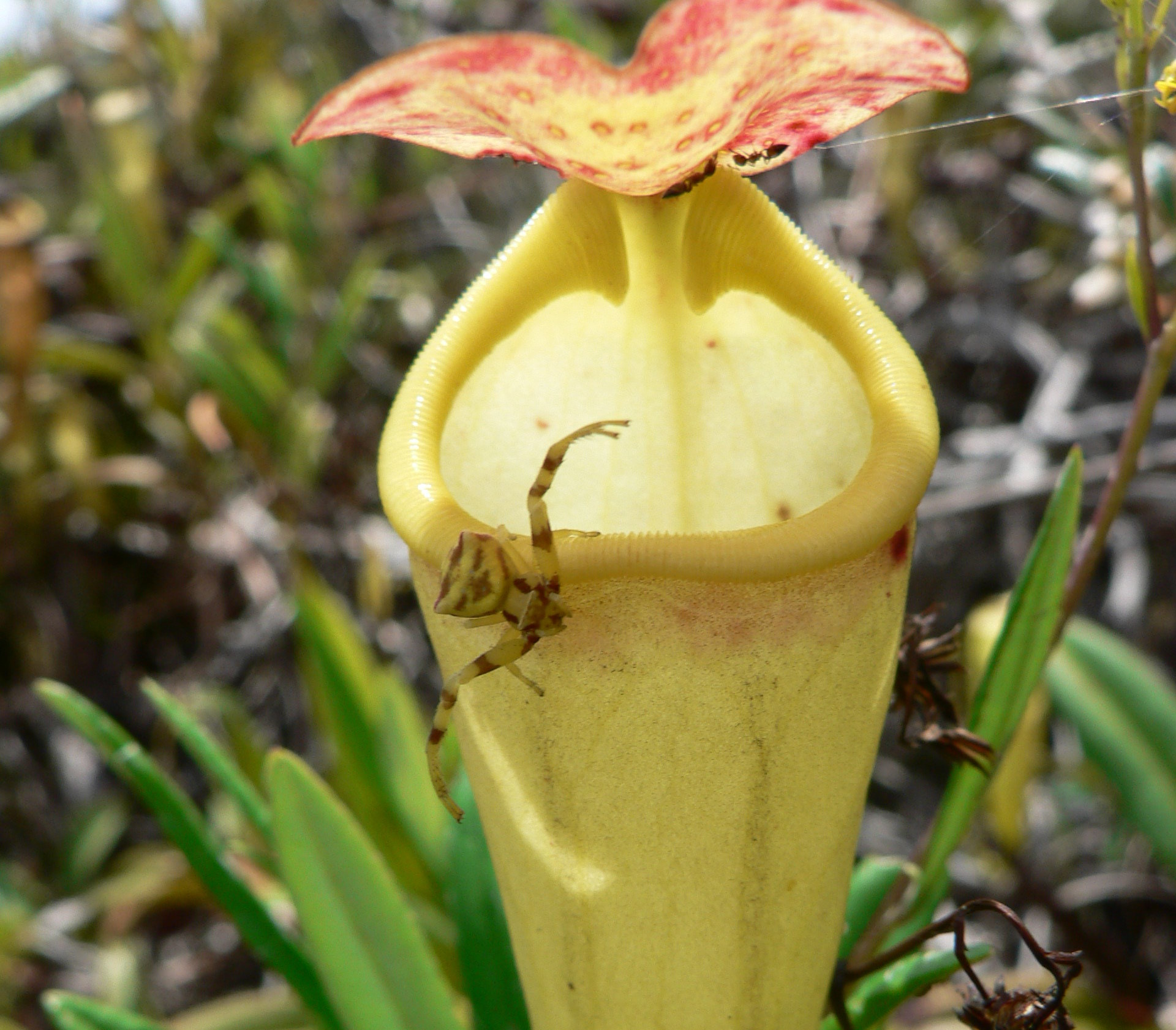 Nepenthes madagascariensis with undetermined Thomisidae spider, east coast of Madagascar